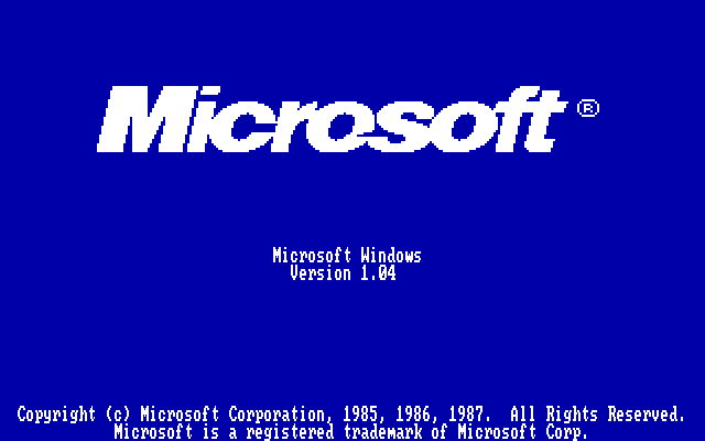 An image of the splash screen of Windows 1.04